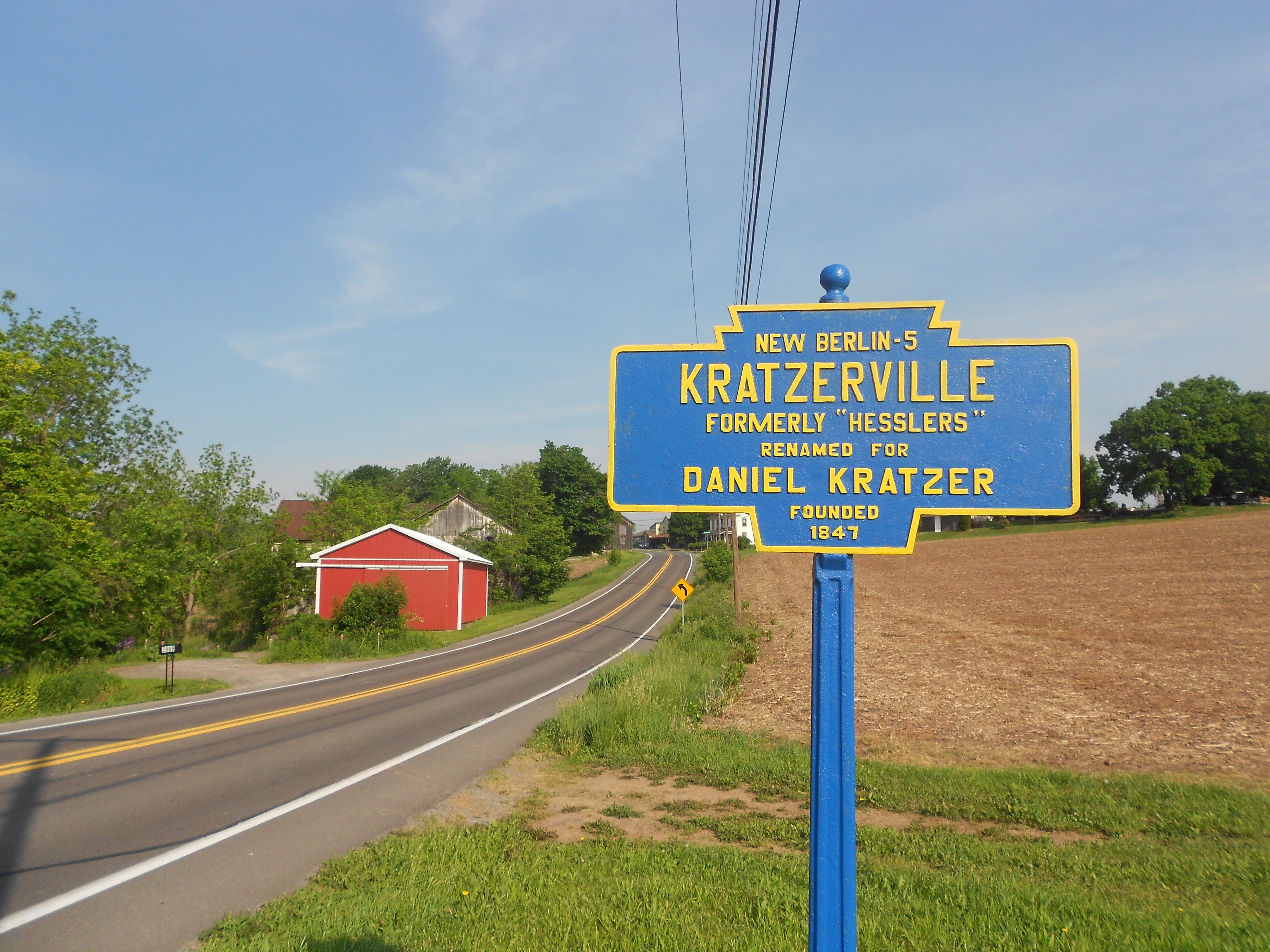 Keystone marker for the CDP of Kratzerville, Jackson Township, Snyder County, Pennsylvania. The marker likely dates from the 1920s or 1930s